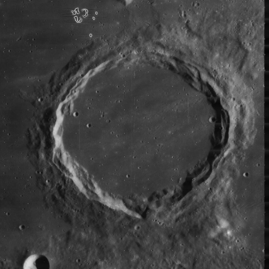 Archimedes, on the moon.